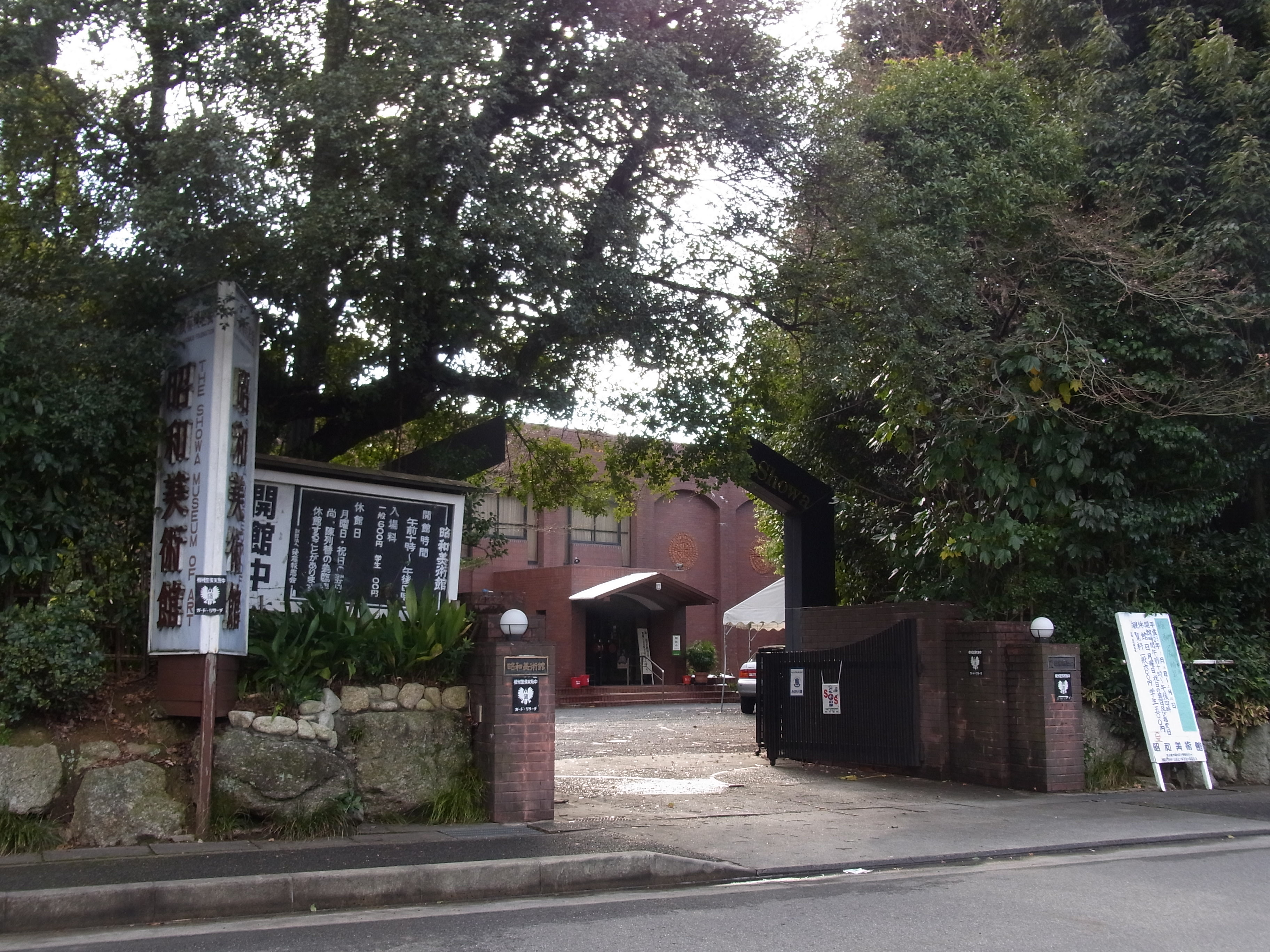 The Showa Museum in Showa-ku ward, Nagoya city.